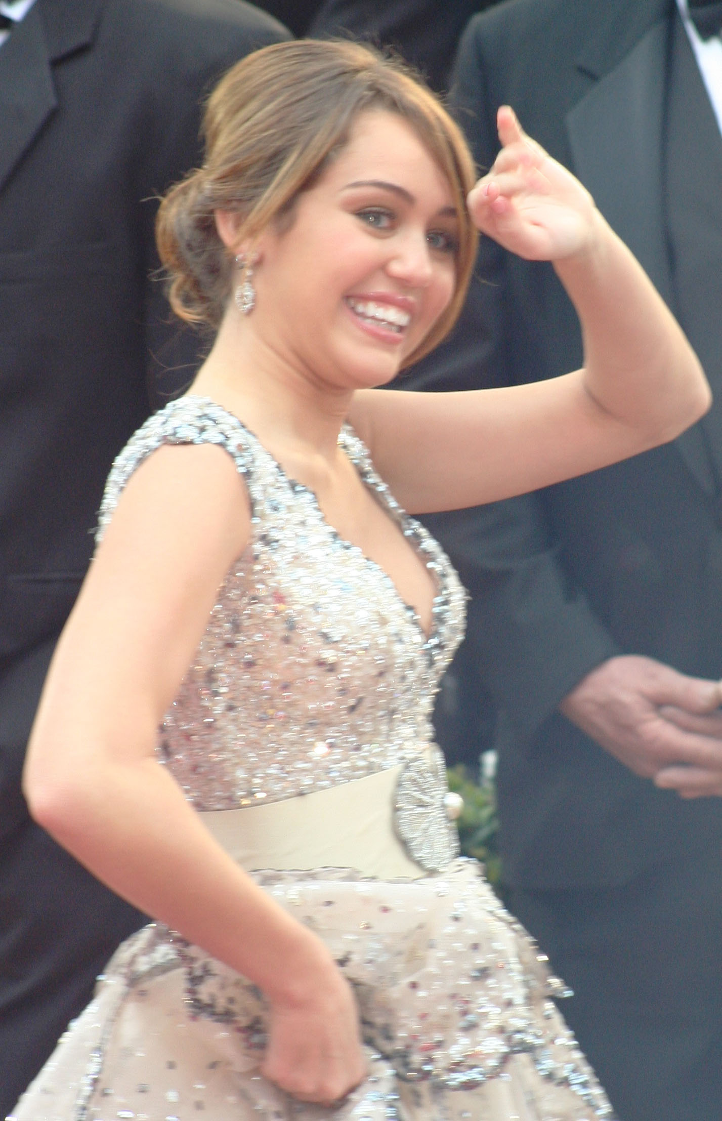 Miley Cyrus at the 81st Academy Awards.